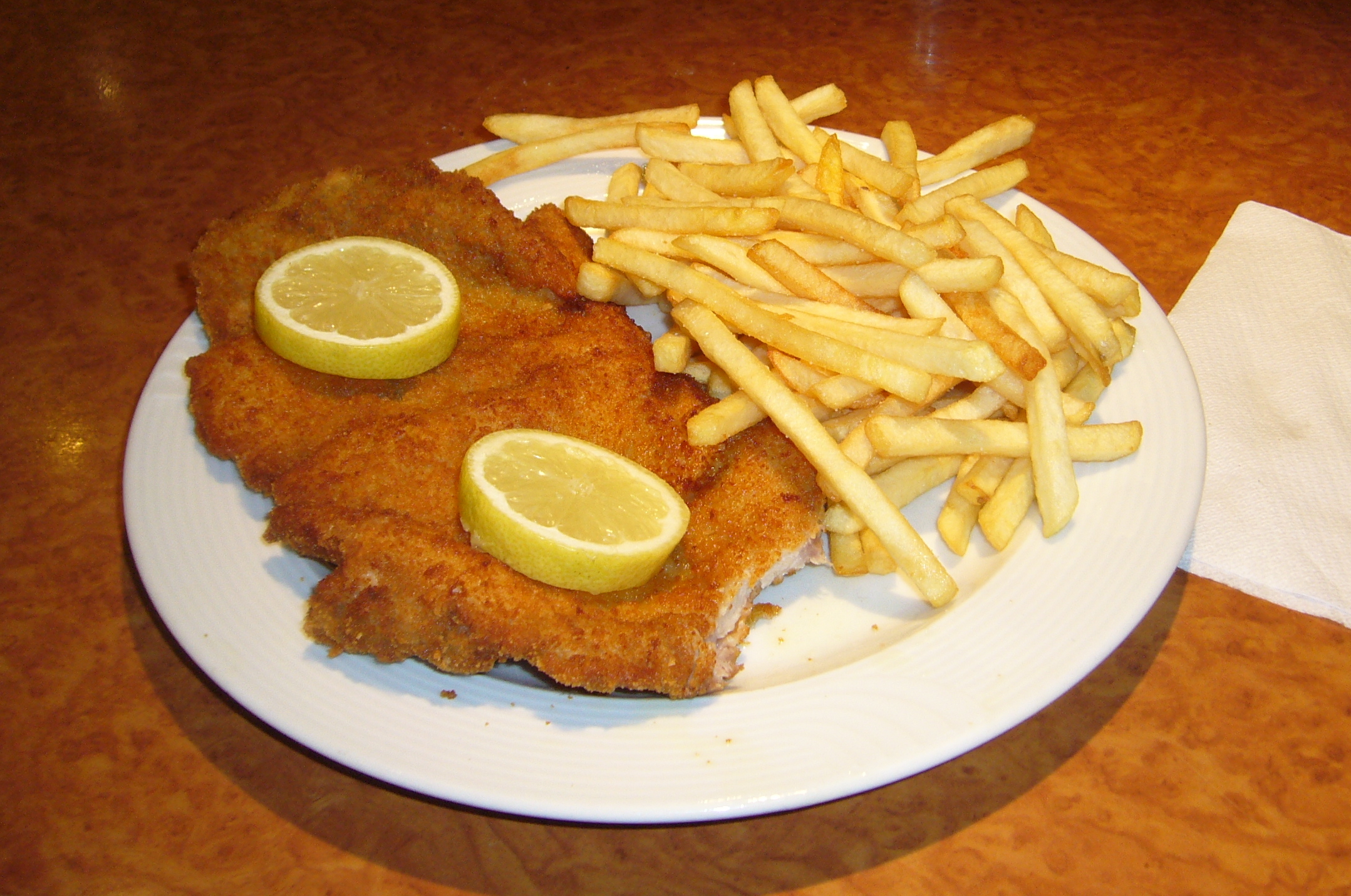 A picture of a Schnitzel with French fries and lemon. The picture was taken at a restaurant in Munich, Germany.